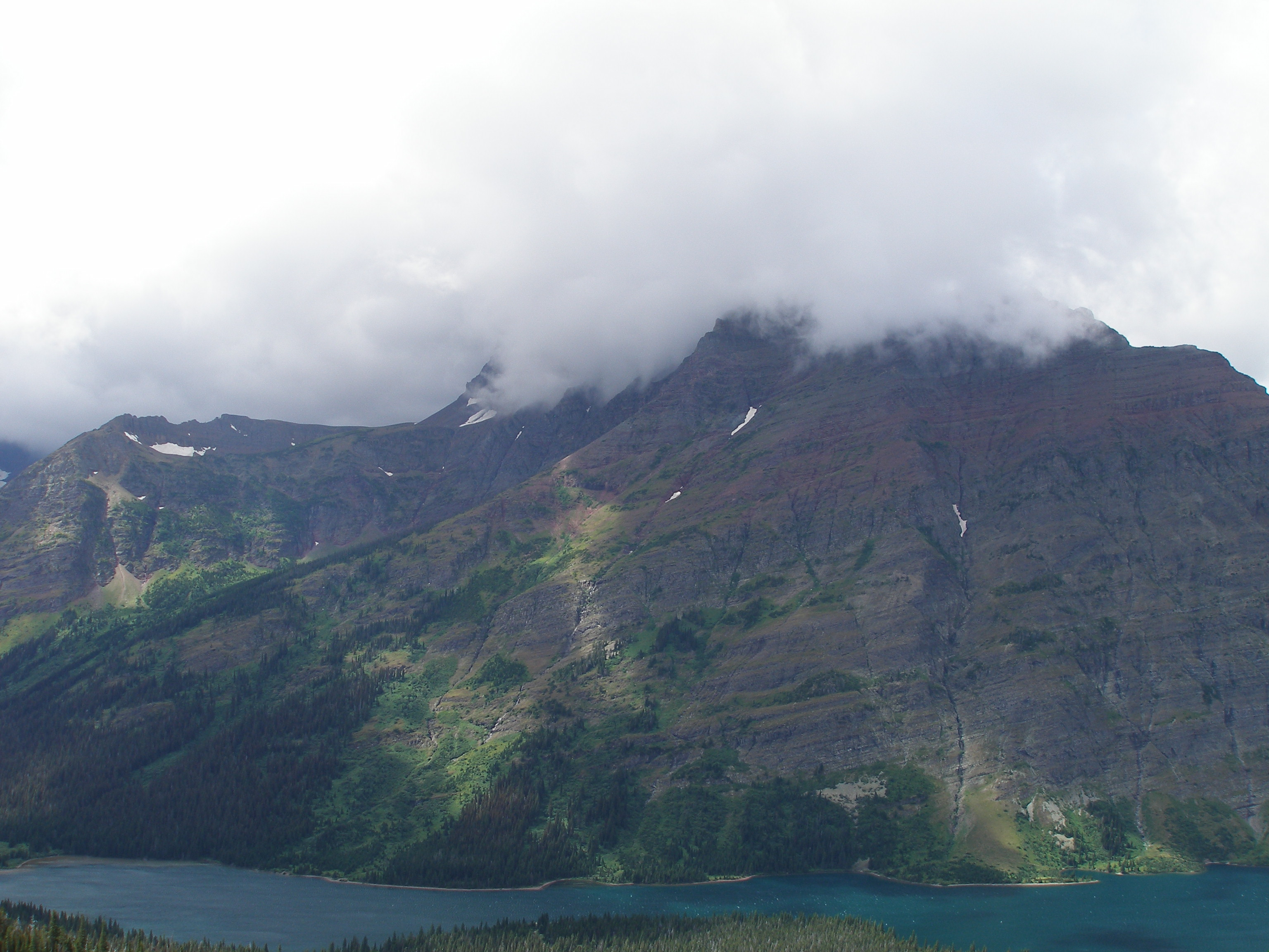 Elizabeth Lake viewed from Red Gap Pass trail.